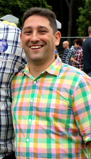 Cropped image of Rodney Berman, 3 September 2011.